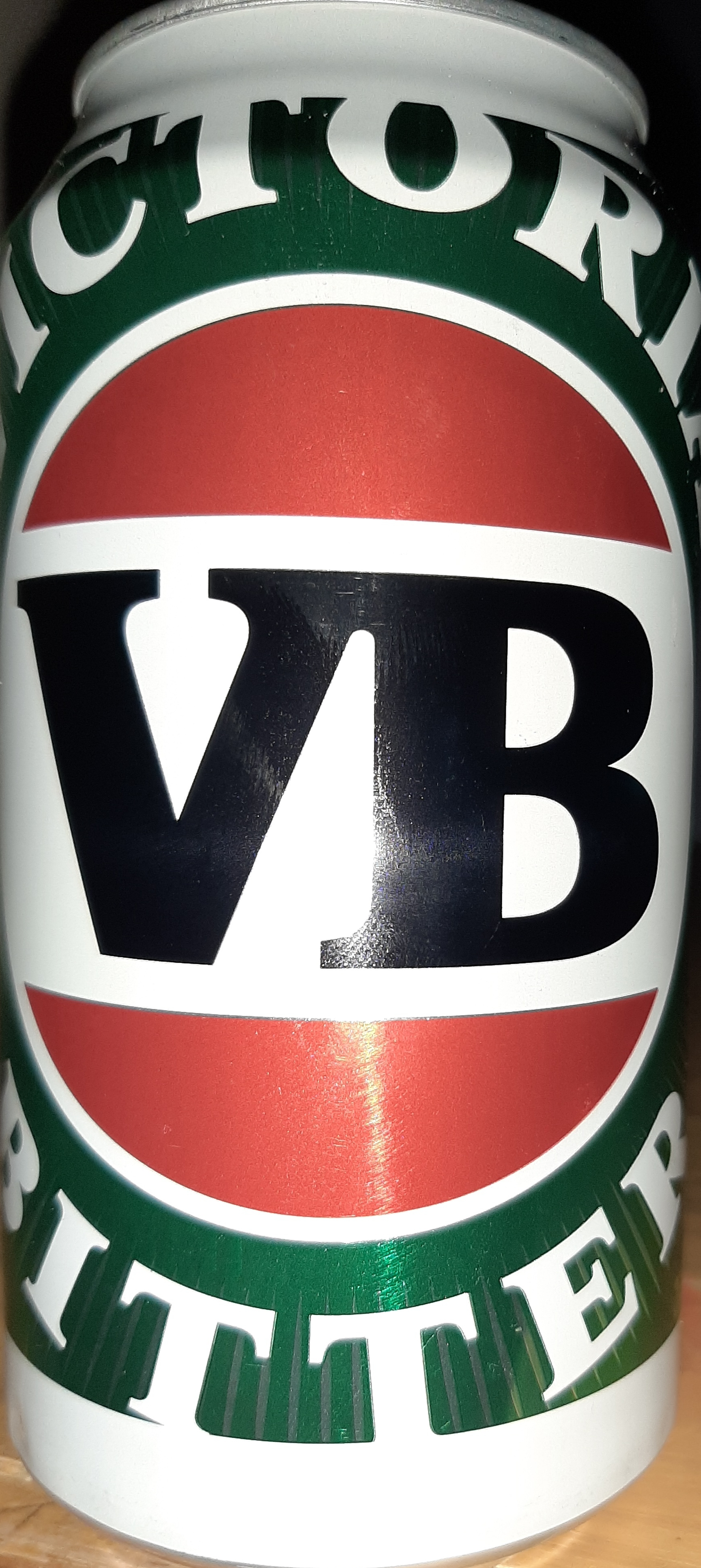 VB can 375mL